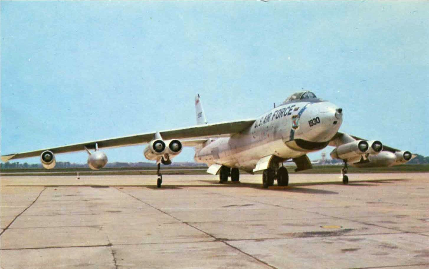 Lockheed-Marietta B-47E Stratojet 53-1830 parked at Langley Air Force Base